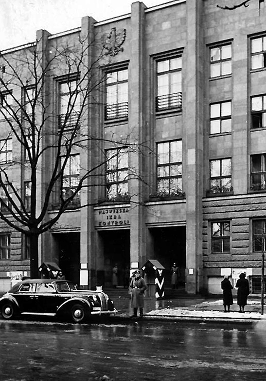 Warsaw during World War II: Former building of Najwyższa Izba Kontroli (Supreme Chamber of Control), today Ministry of Foreign Affairs of Poland at Aleje Szucha 23.